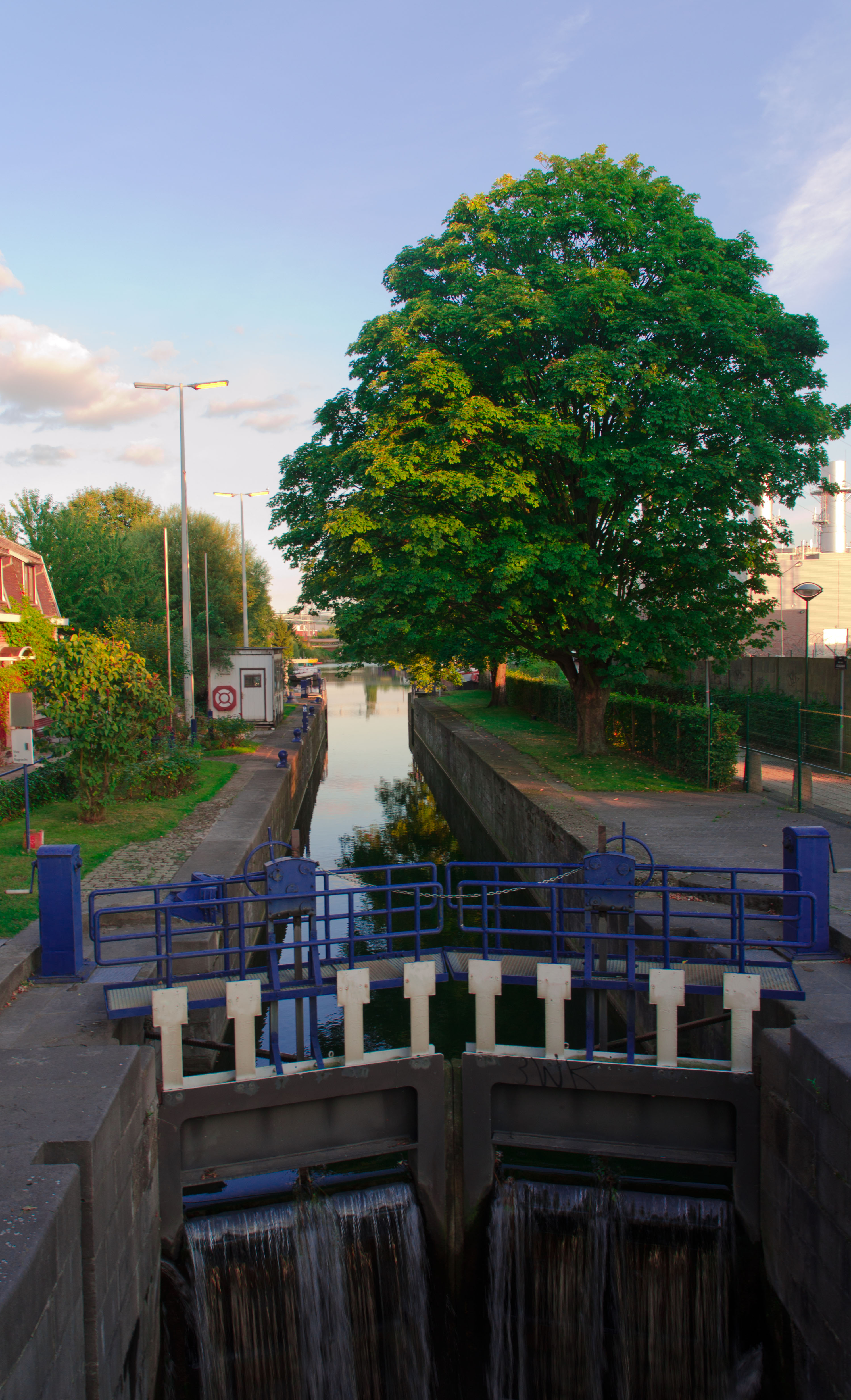 Lock between the Ourthe channel and the Meuse river, Liège